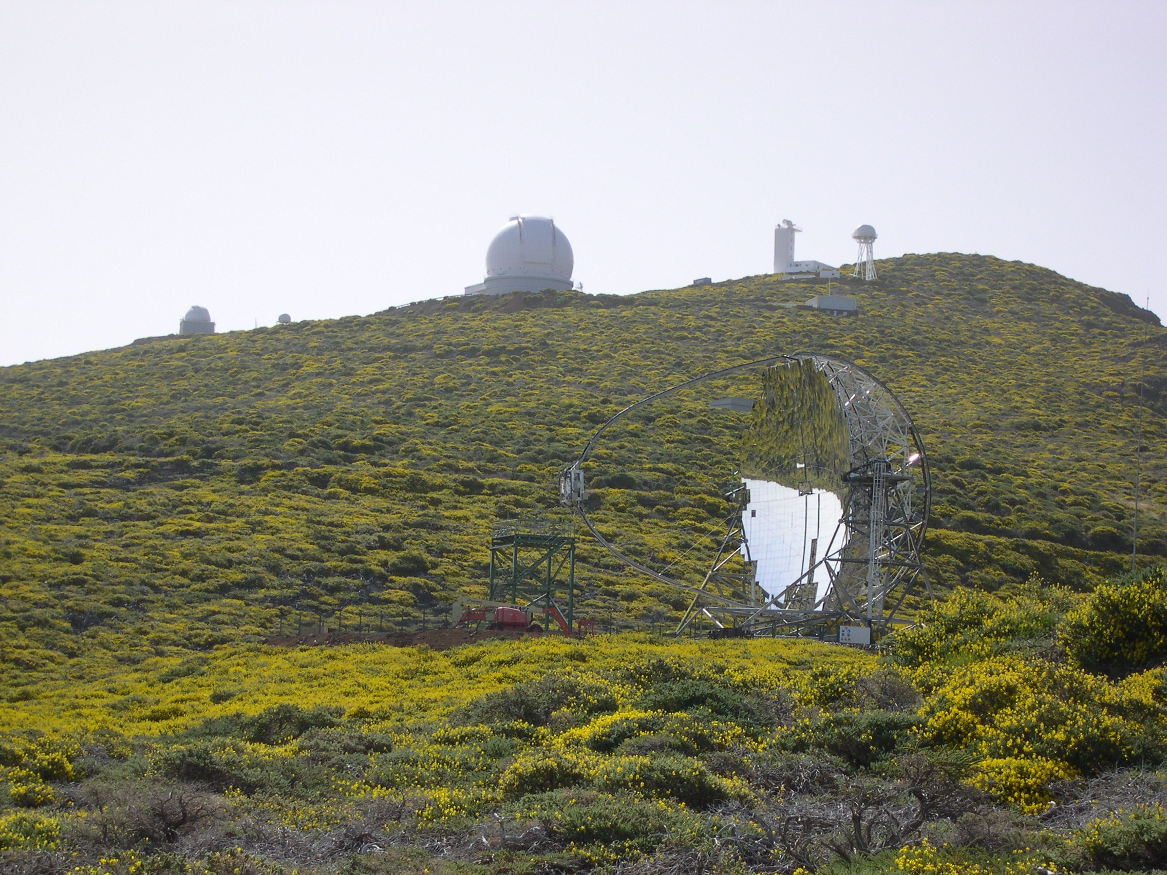 The MAGIC telescope at Roque de los Muchachos Observatory on La Palma (during construction). In the background the Isaac Newton Telescope, the William Herschel Telescope, the Swedish Solar Telescope and the Dutch Open Telescope can be seen.